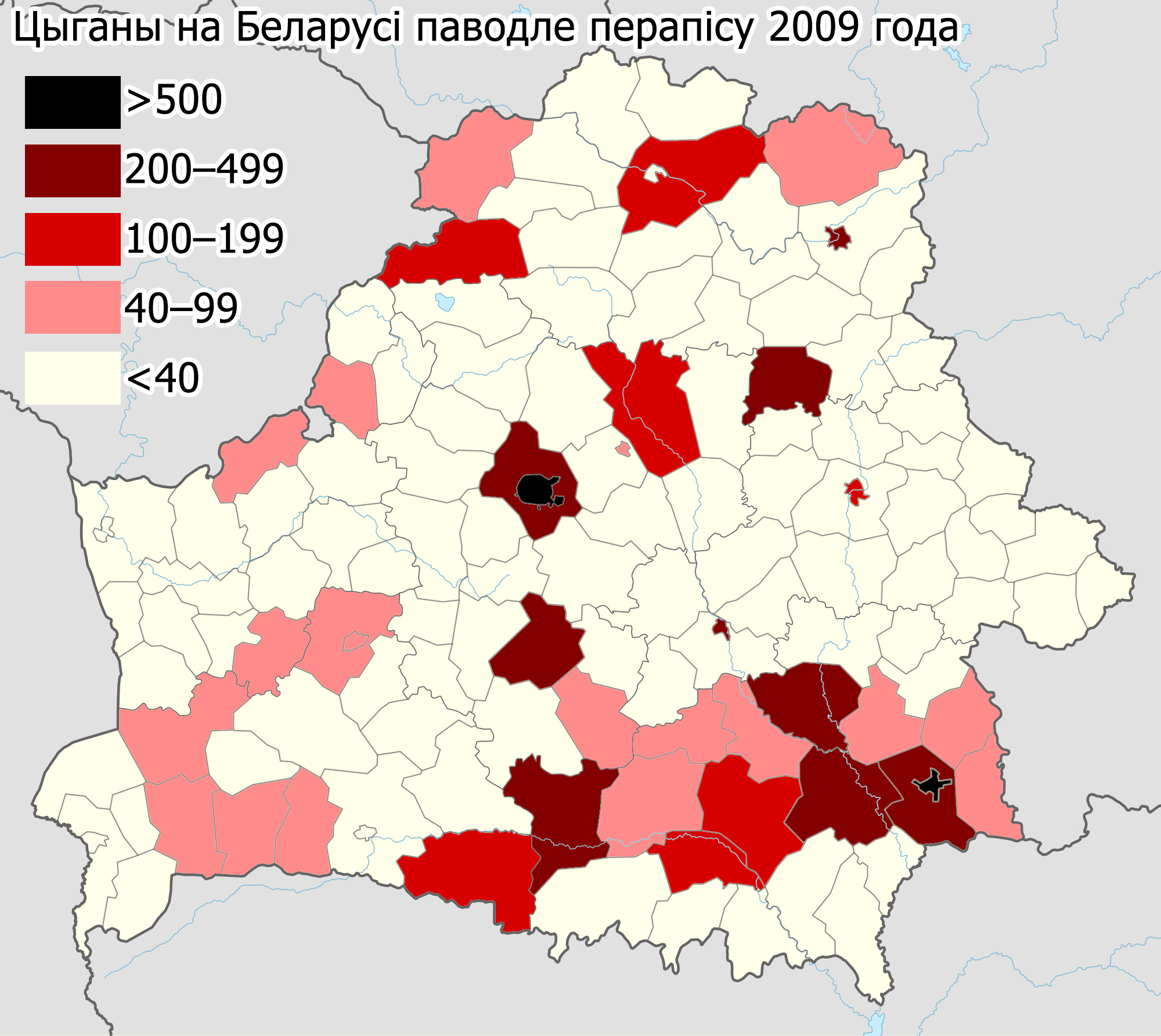 Gypsies in Belarus in districts and major cities according to the 2009 census